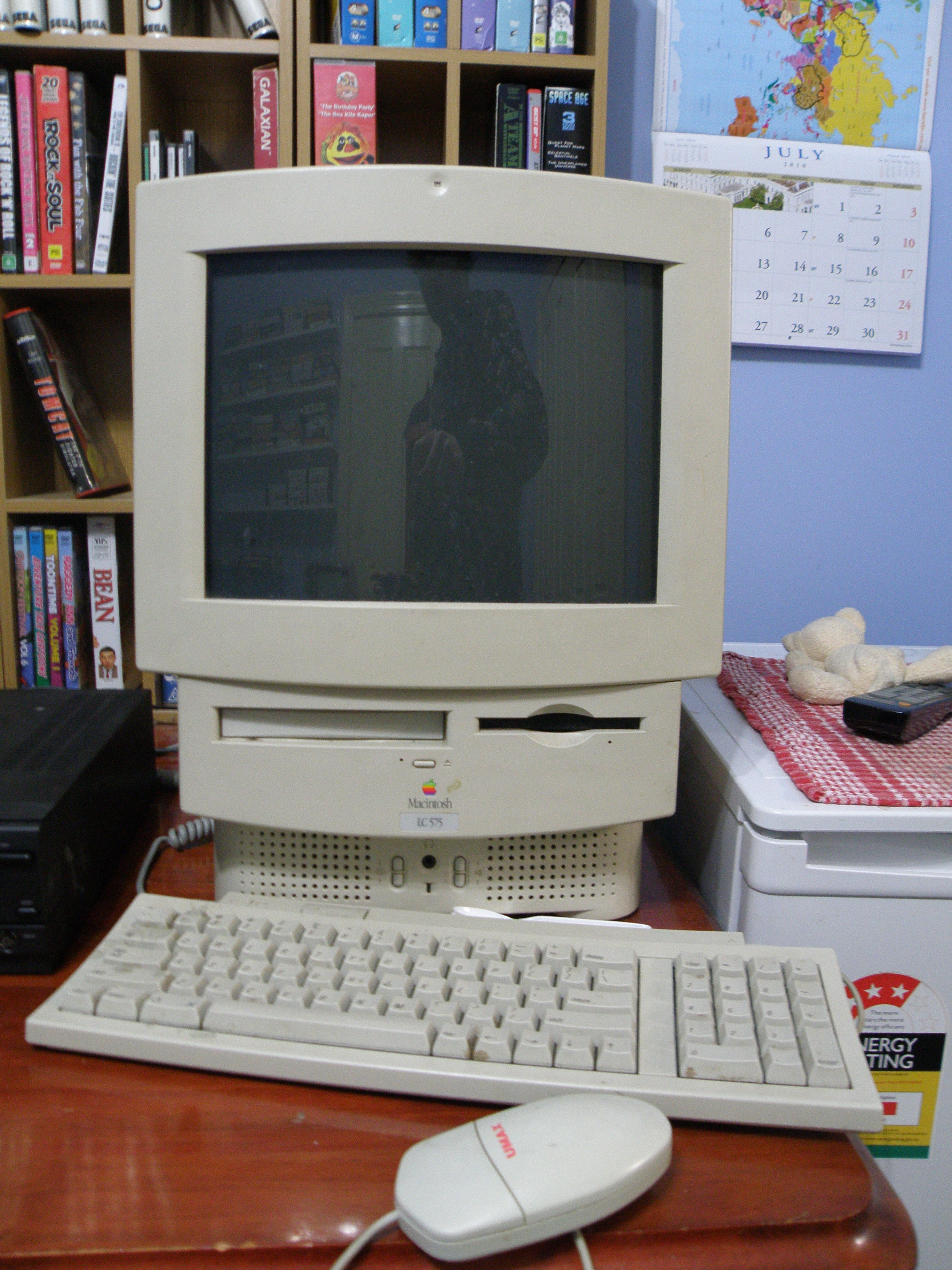 Another picture of an old Macintosh LC 575 that I got from a friend of a friend. The computer notably has an "unoffical" after-market mouse.